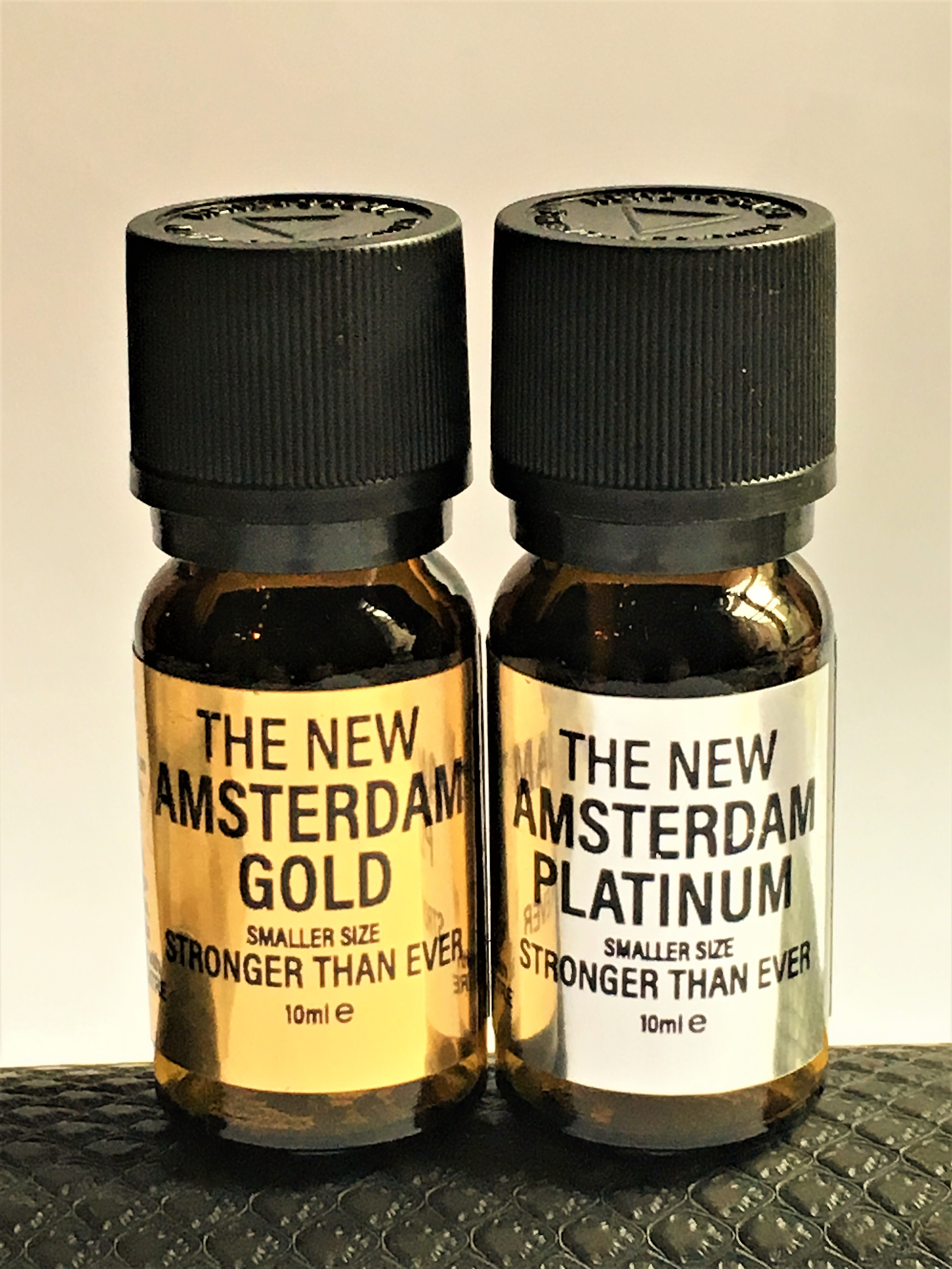 Two bottles of amyl nitrite inhalant drug.